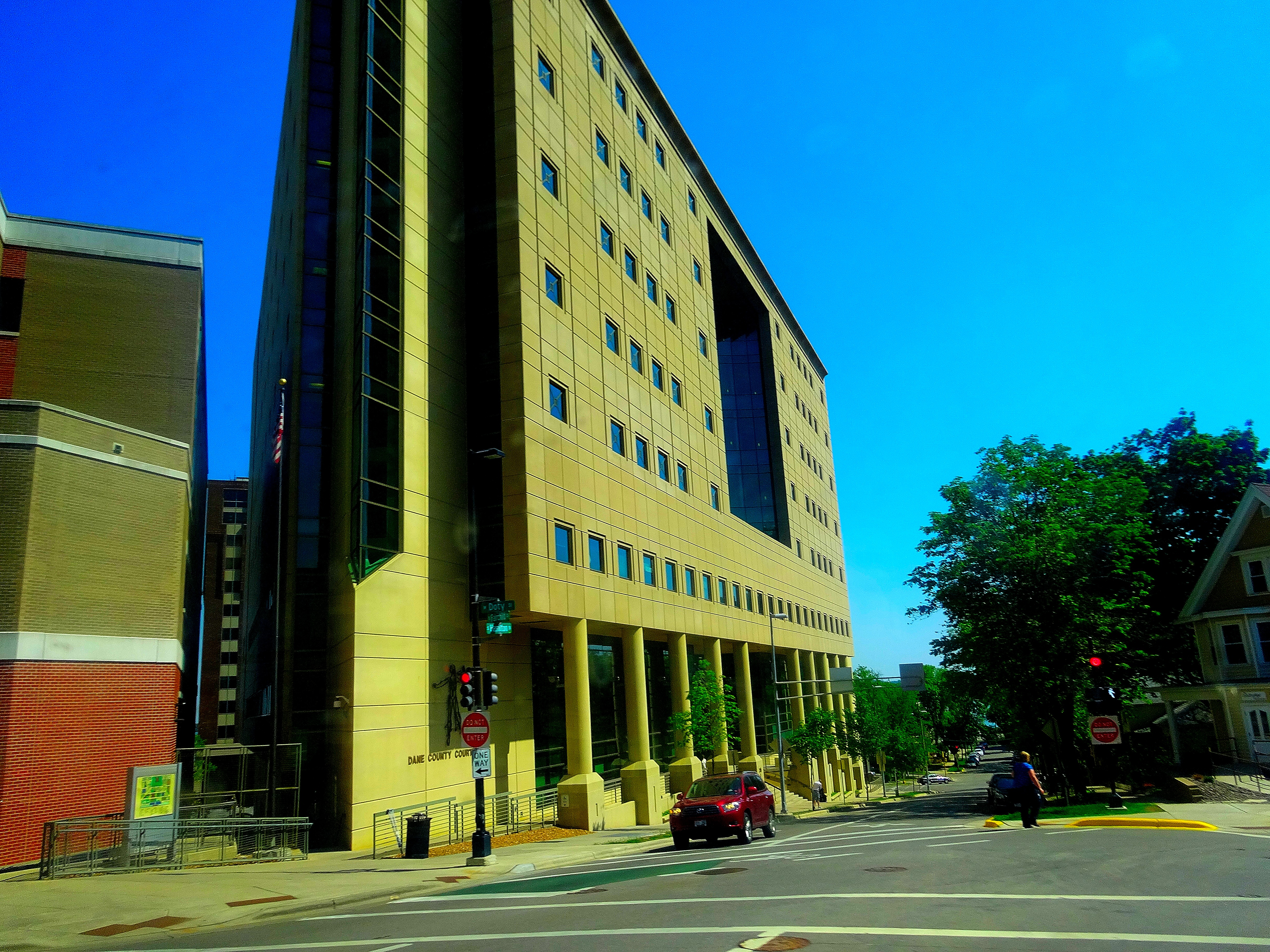 Dane County Courthouse